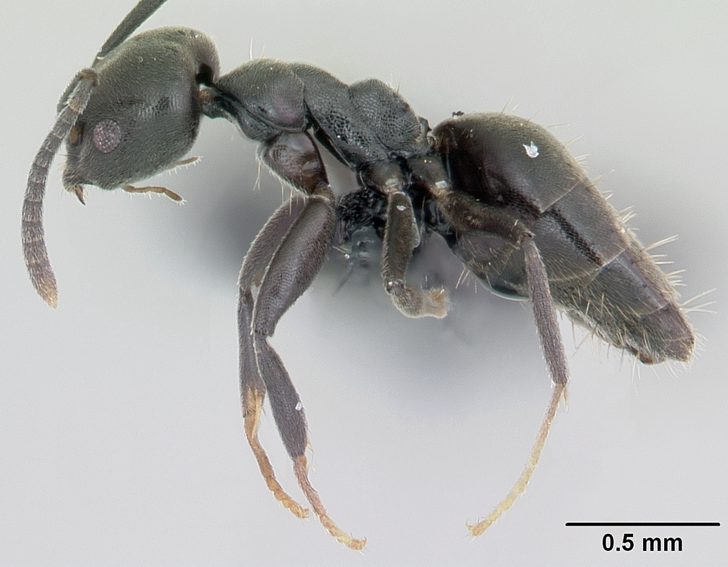 Profile view of ant Technomyrmex albipes specimen casent0055965.